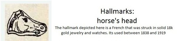 French hallmark " Horse head " used for 18k 750 solid gold made in the French provinces between 1838-1919